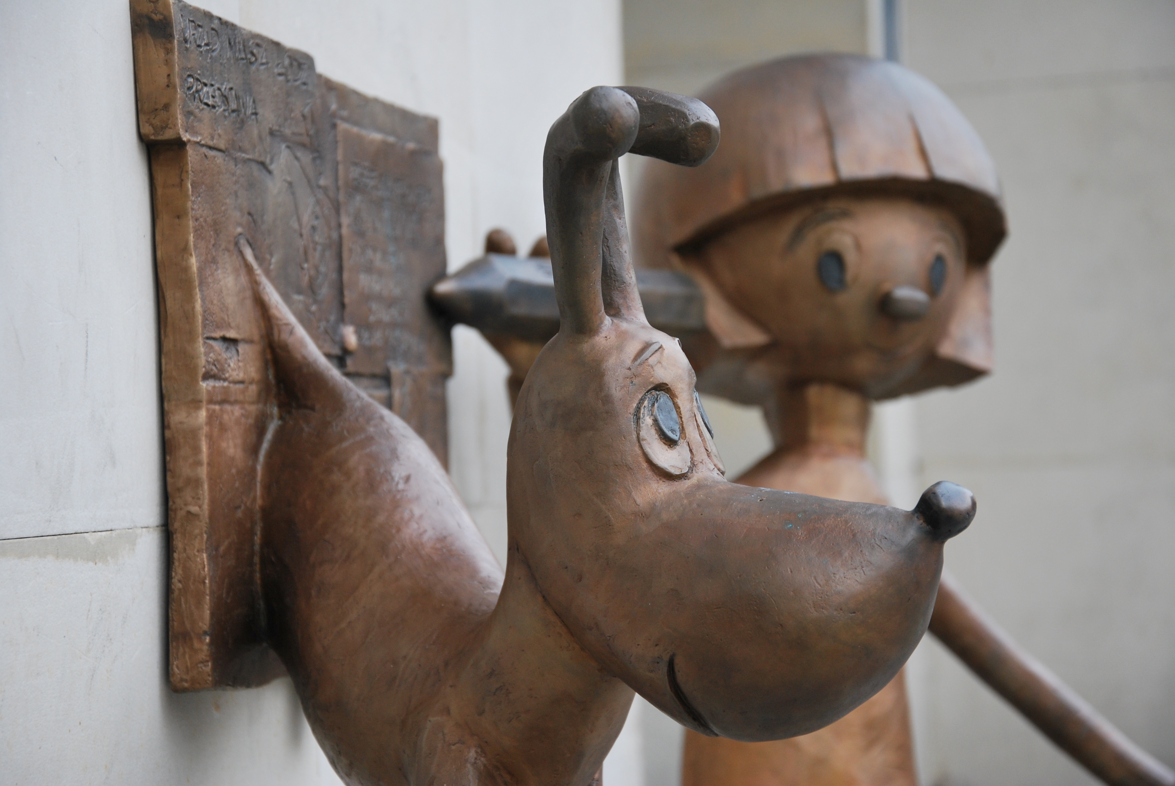 Sculpture of dog and Piotrus from cartoon 'Zaczarowany ołówek', Łódź Culture Center